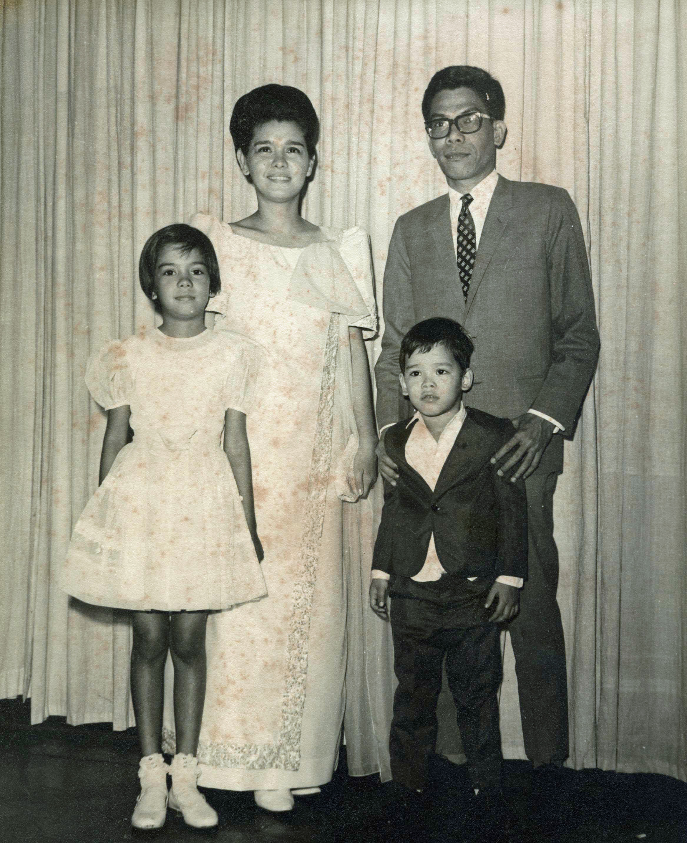 Gimo and Family c. 1969